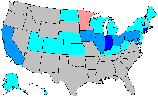 Summary of party change of U.S. house seats in the 1958 House election. Stripes indicate a tie between the gains of two or more parties. Legend: 6+ Democratic seat pickup 3-5 Democratic seat pickup 1-2 Democratic seat pickup 1-2 Republican seat pickup 3-5 Republican seat pickup 6+ Republican seat pickup Note: years ending in 2 may have inconsistent results due to redistricting.